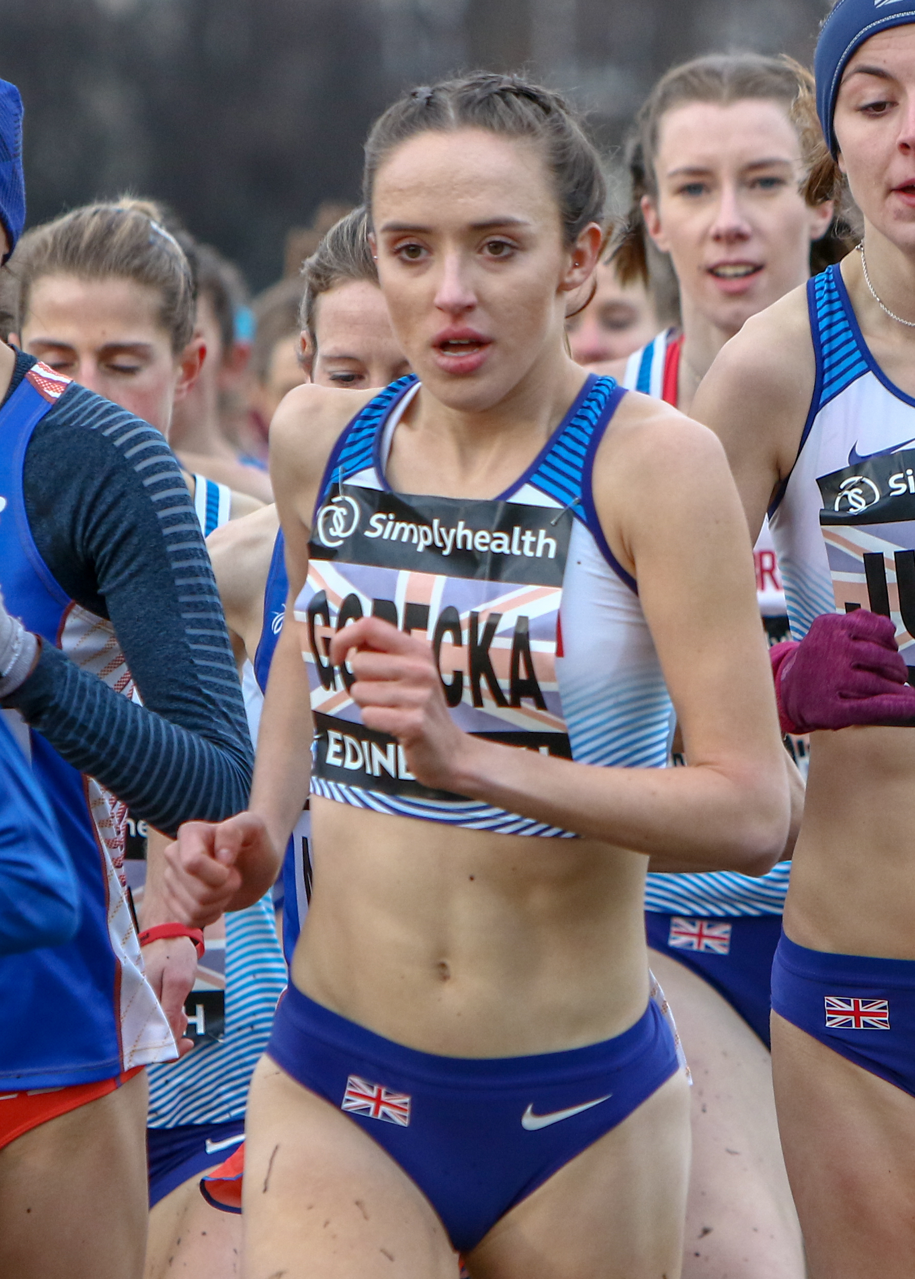 Great Edinburgh International Cross Country 2018 – Senior Women's 6km